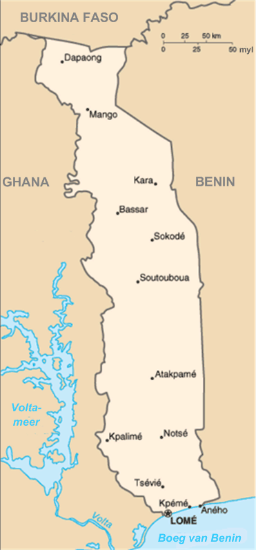 An Afrikaans map of Togo.